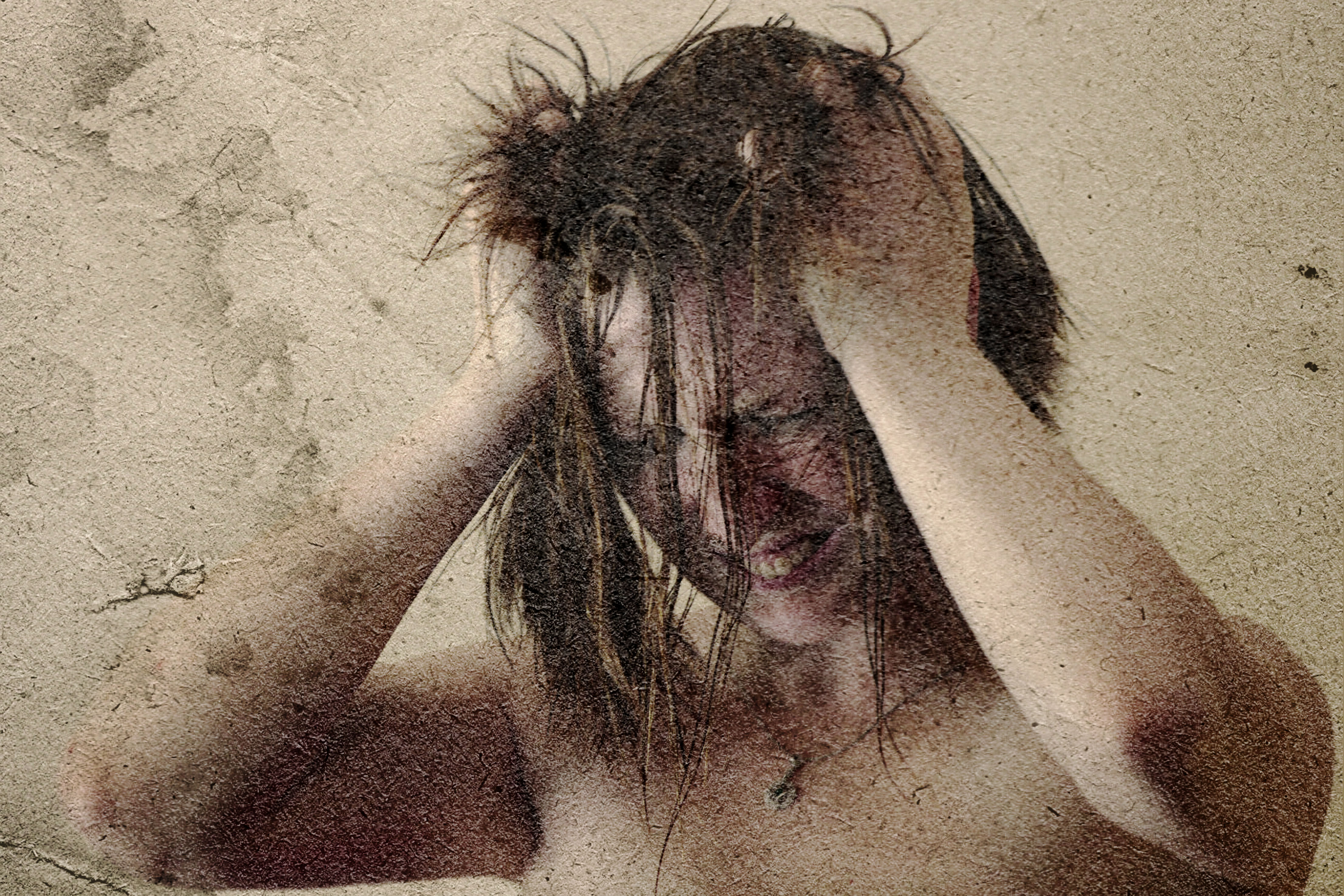 Bleh.. this is how I sometimes feel during the middle of the day.